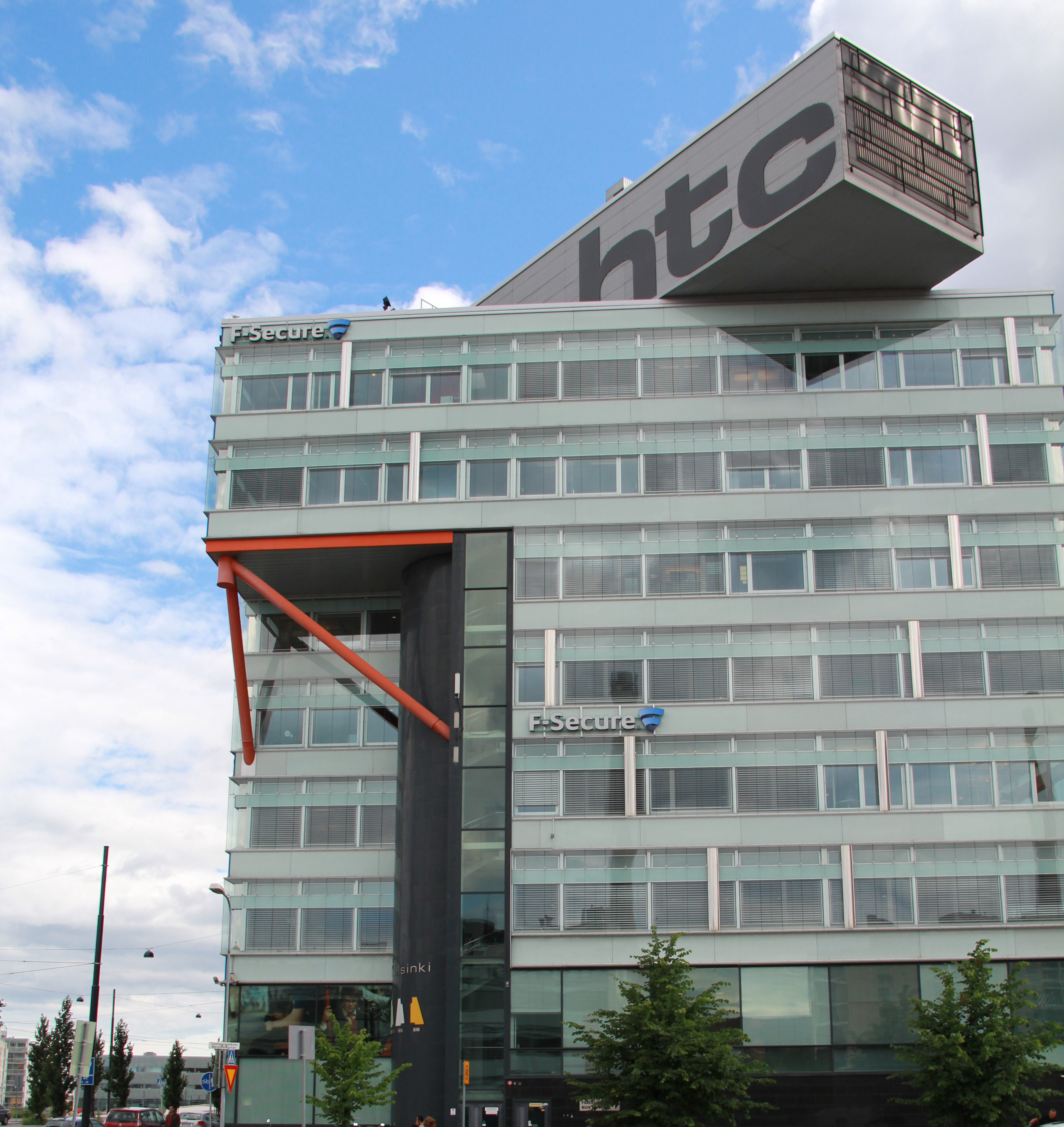 F-secure (company) Headquarters in Ruoholahti, Helsinki, Finland.